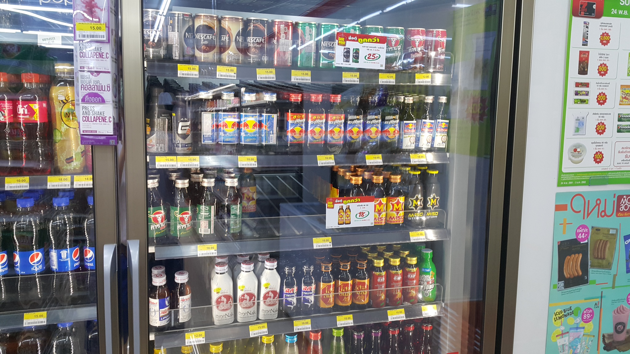 Assorment of energy drinks displayed in a store in Bangkok